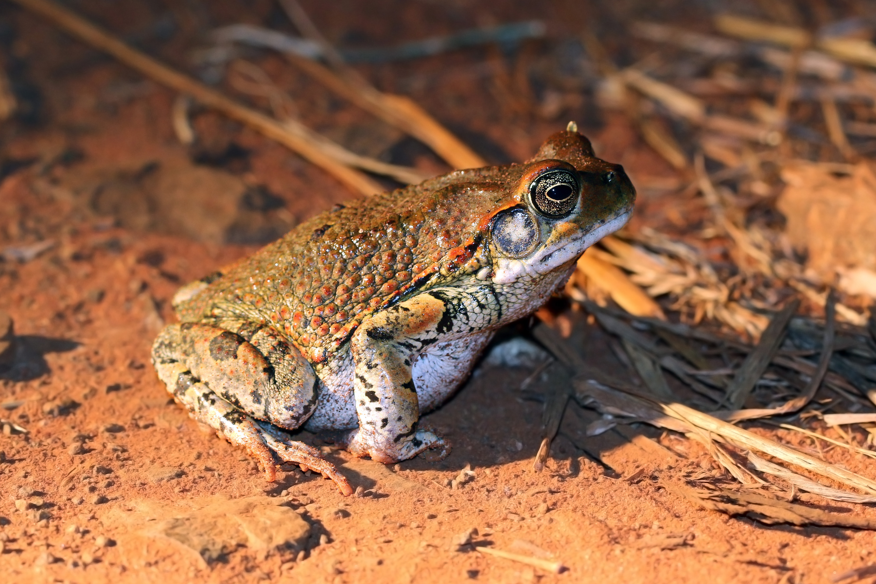 Red toad (Schismaderma carens), Phinda Private Game Reserve, KwaZulu Natal, South Africa